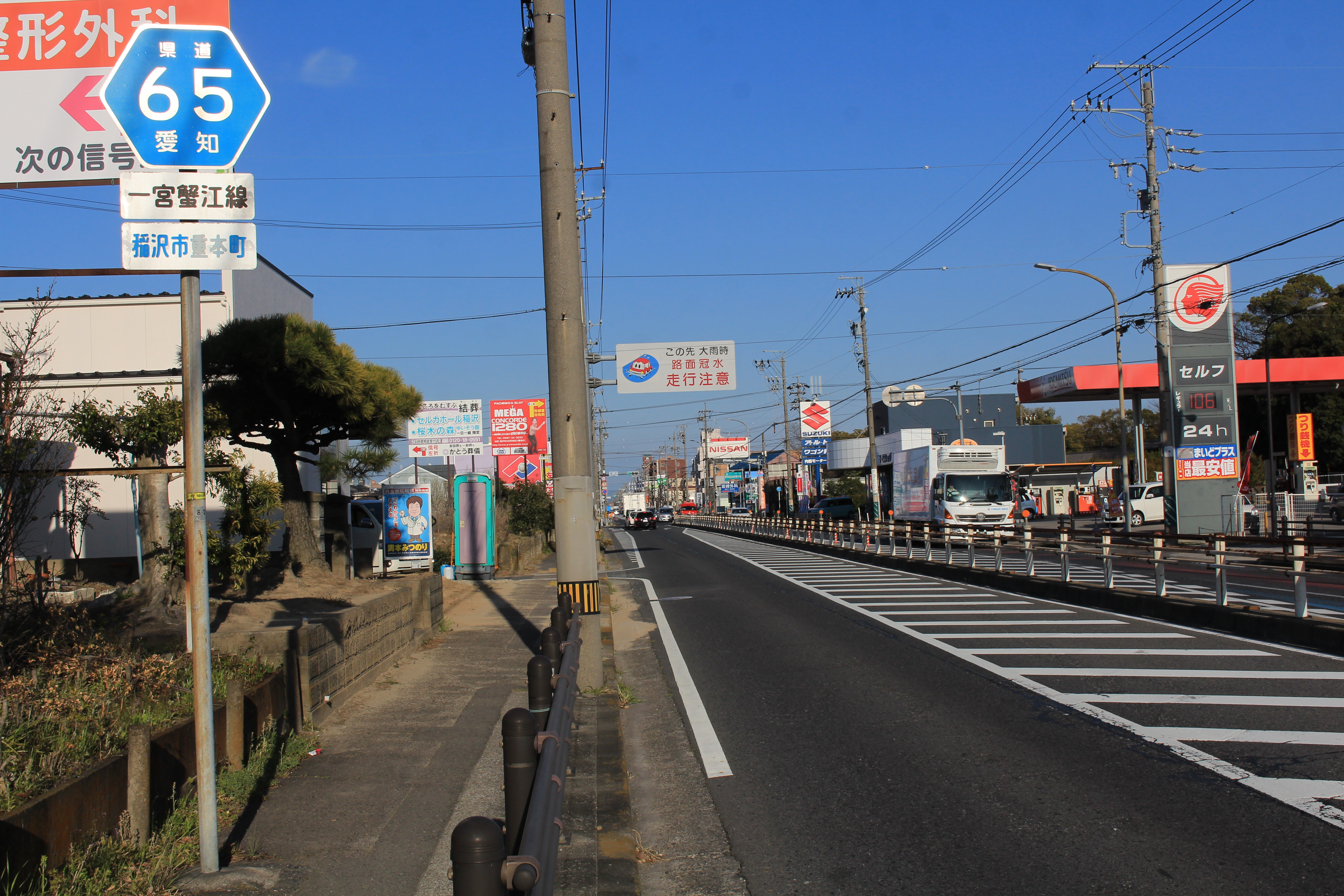 Aichi Prefectural Road Route 65 in Shigemoto, Inazawa, Aichi prefecture, Japan.